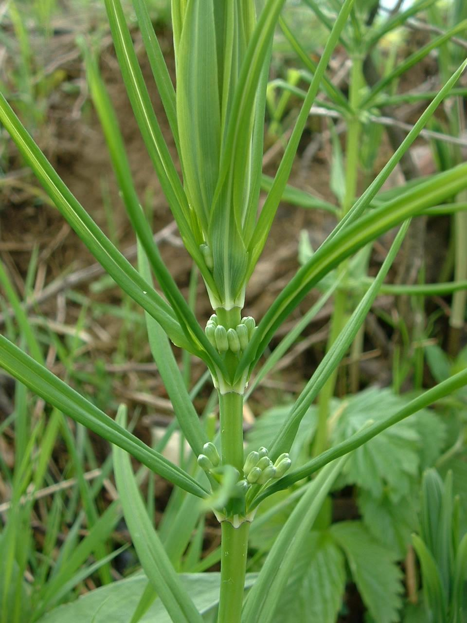 Polygonatum verticillatum, La Cluse et Mijoux